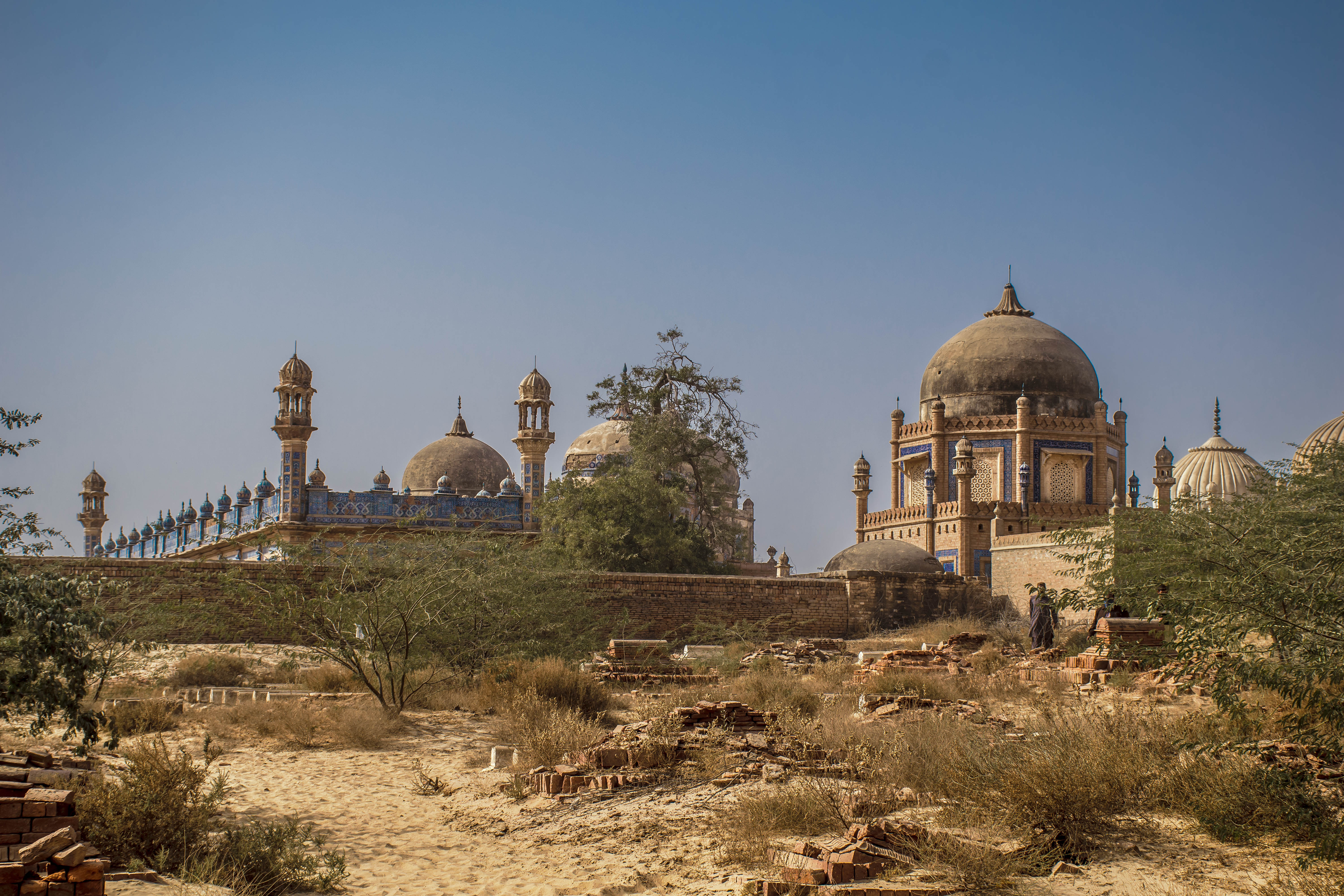 The great Abbasis are on eternal rest in the abbasi graveyard which is a few hundred yards away from the Fort Derawar. The grand celebrities of the past lying in this graveyard are: Nawab Muhammad Bahawal Khan (2nd) Nawab Sadiq Muhammad Khan (2nd) Nawab Muhammad Bahawal Khan (3rd) Nawab Fateh Muhammad Khan, Nawab Muhammad Bahawal Khan (4th) Nawab Sadiq Muhammad Khan (4th), Nawab Muhammad Bahawal khan (5th), Nawab Sadiq Muhammad Khan (5th), Sahibzada Abdullah (the son of Nawab Sadiq Muhammad Khan (5th) Rahim Yar Khan the son of Nawab Sadiq Muhammad Khan (4th) These are the remarkable graves in this graveyard. The architecture of these graves is worth-seeing and reminds of the great empire of these grand people.